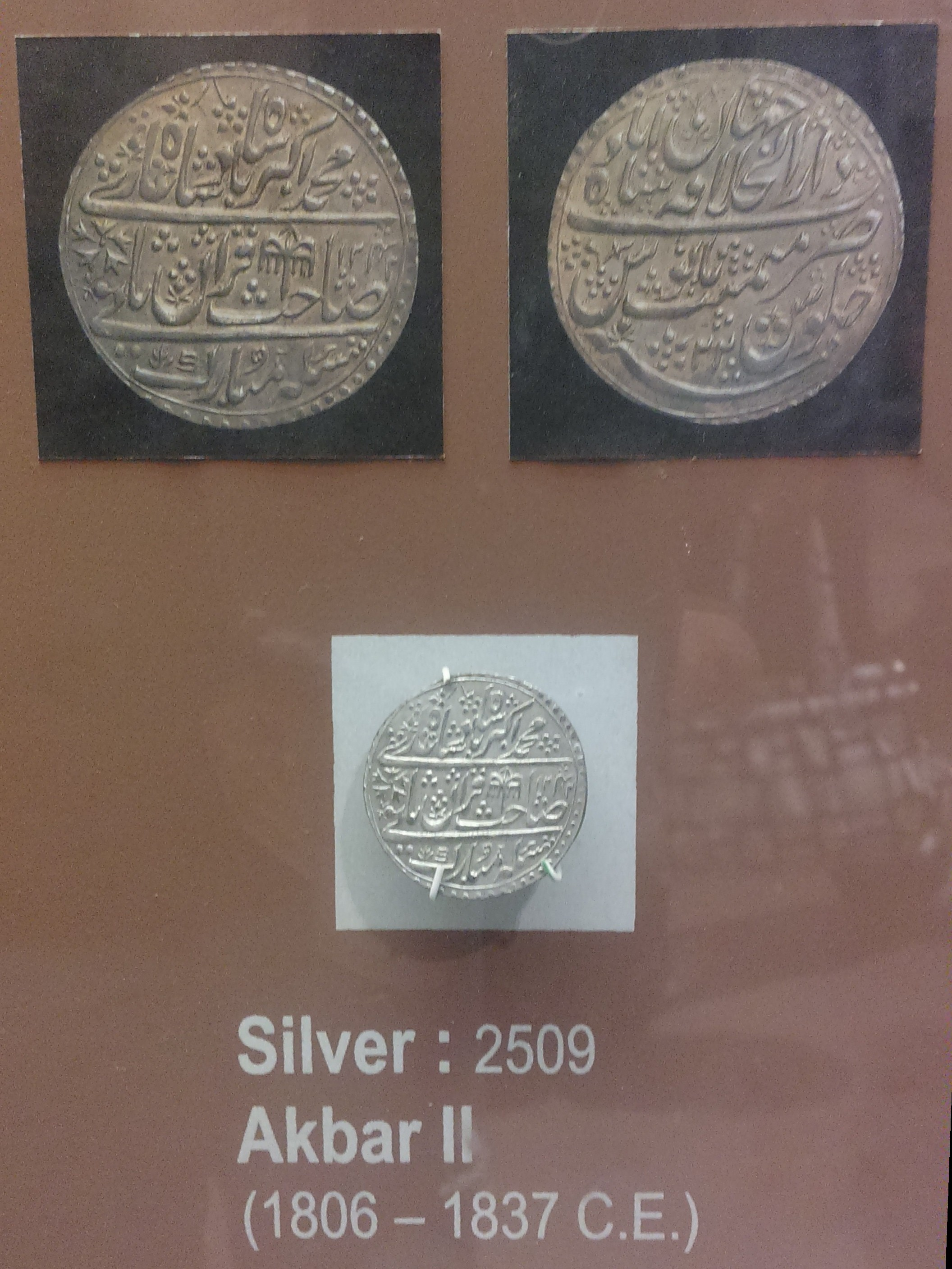 Silver coin issued by Akbar II, Indian Museum